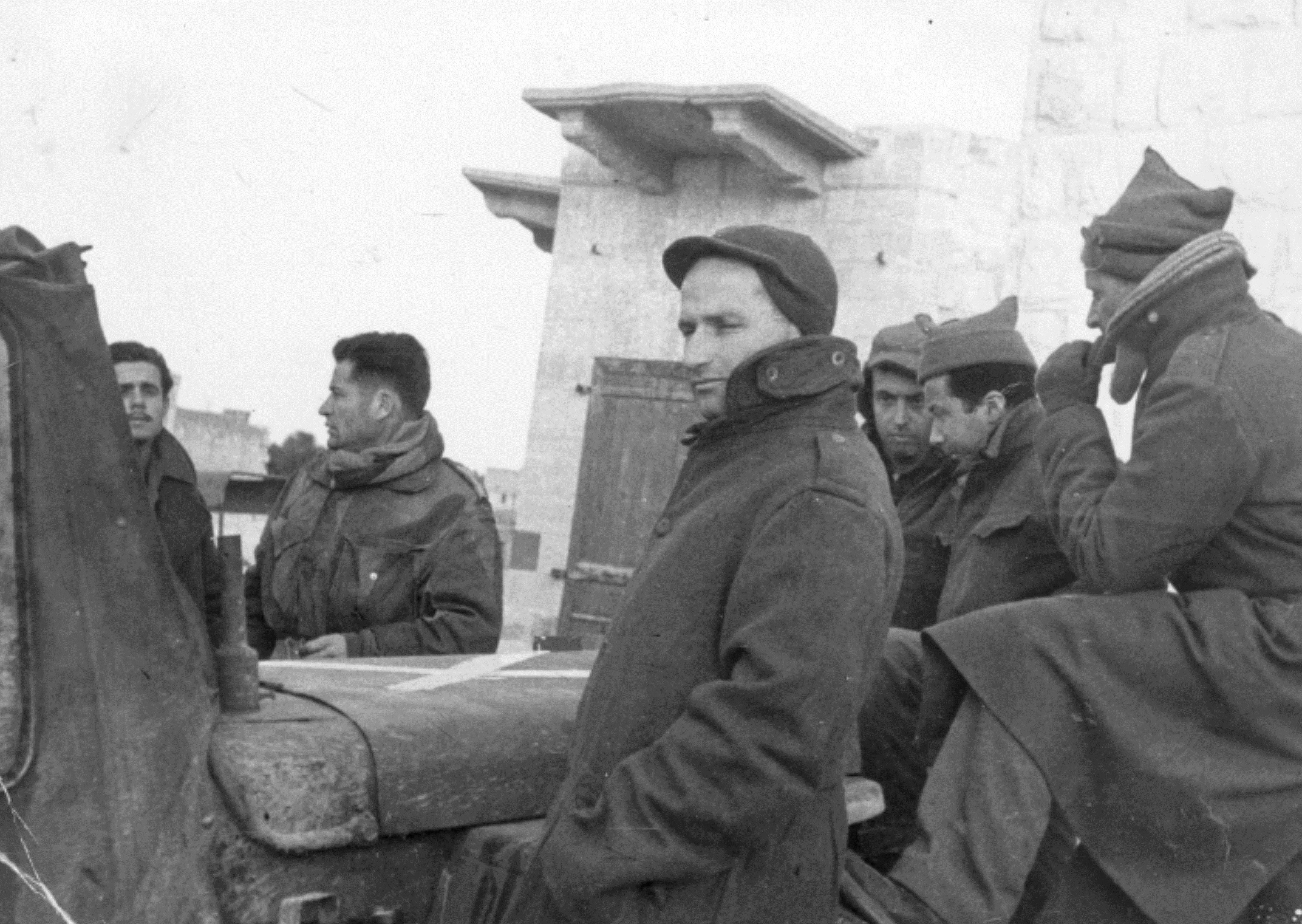 The Palmach, Israel Defense Forces